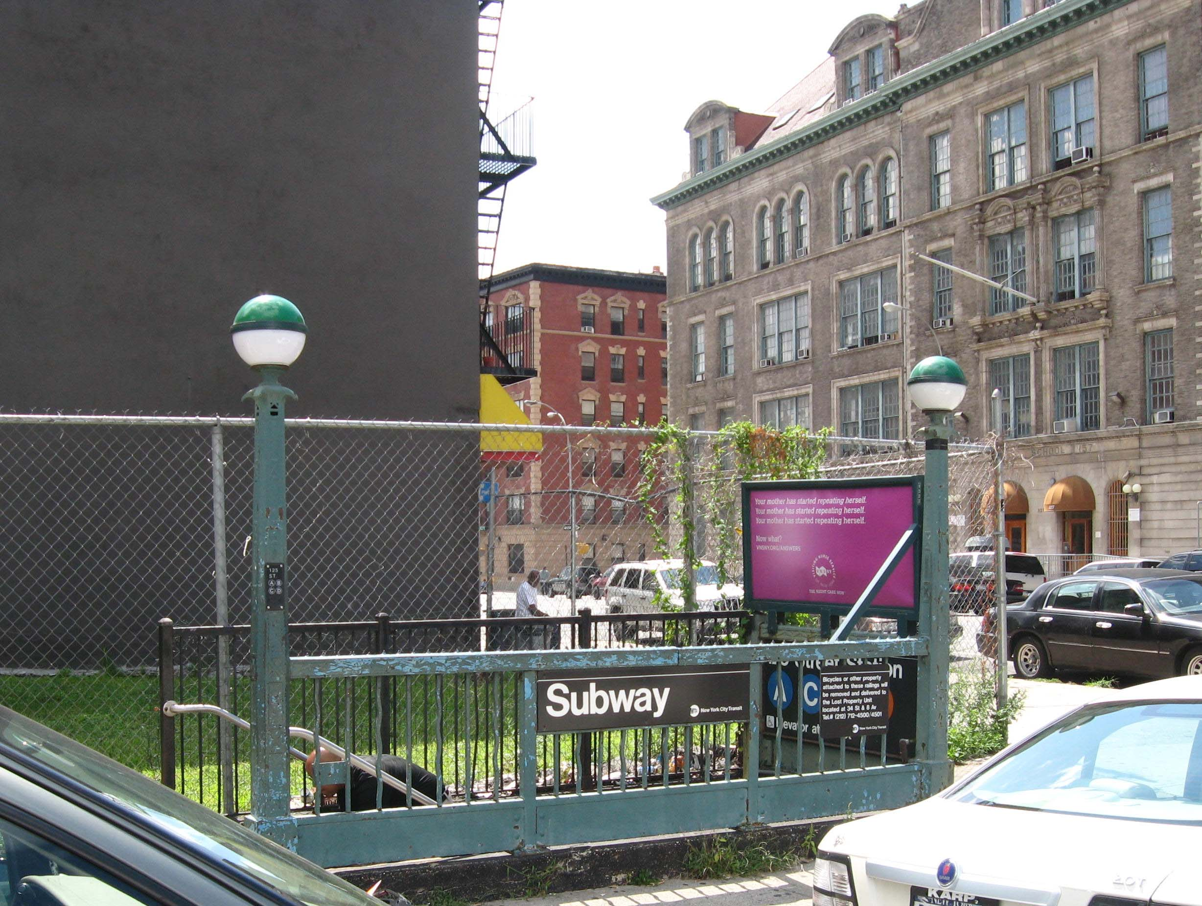 Looking southwest across West 127th Street at en:125th Street (IND Eighth Avenue Line) street stair on a partly sunny midday